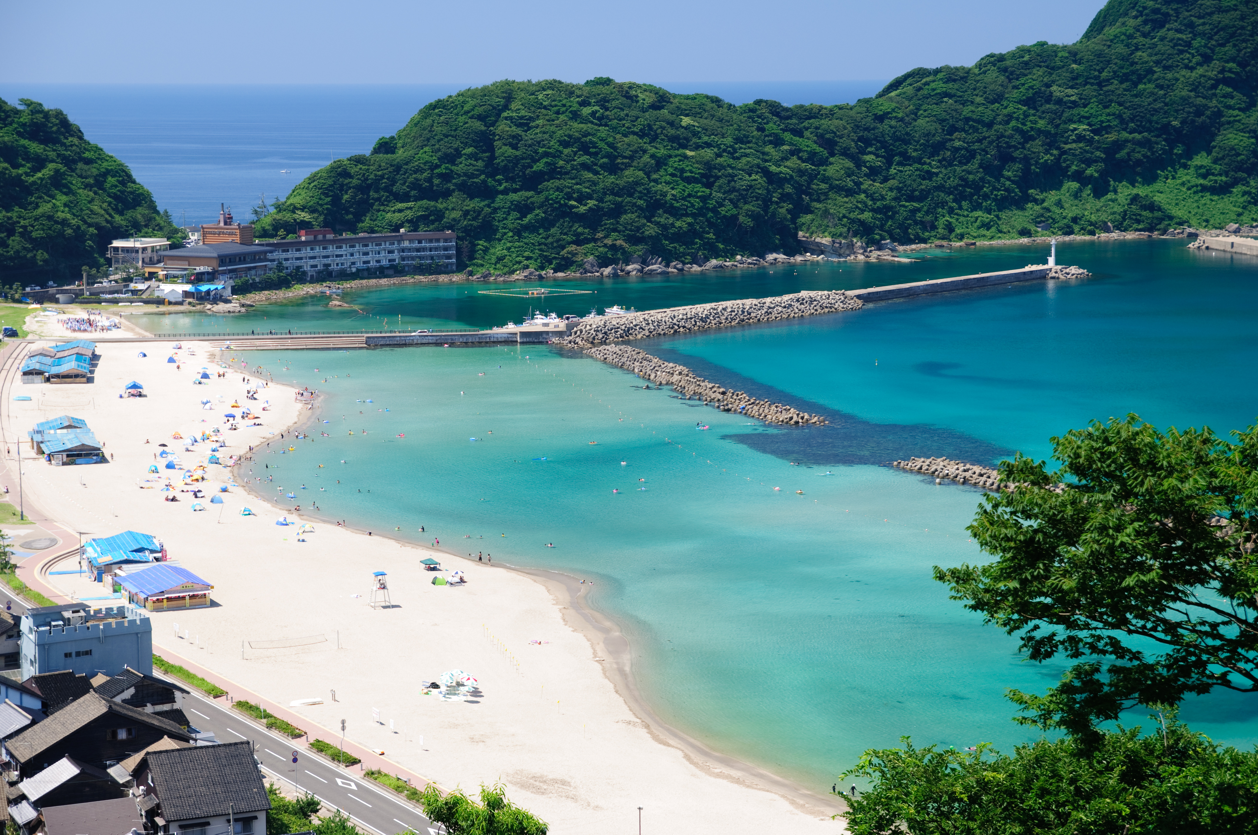 Takeno hama Beach in Takeno-cho, Toyooka, Hyogo Prefecture, Japan.